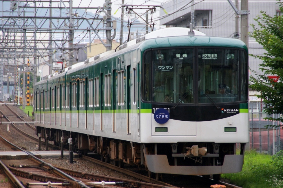 Keihan 10000 series four-car EMU set 10001 approaching Katanoshi Station